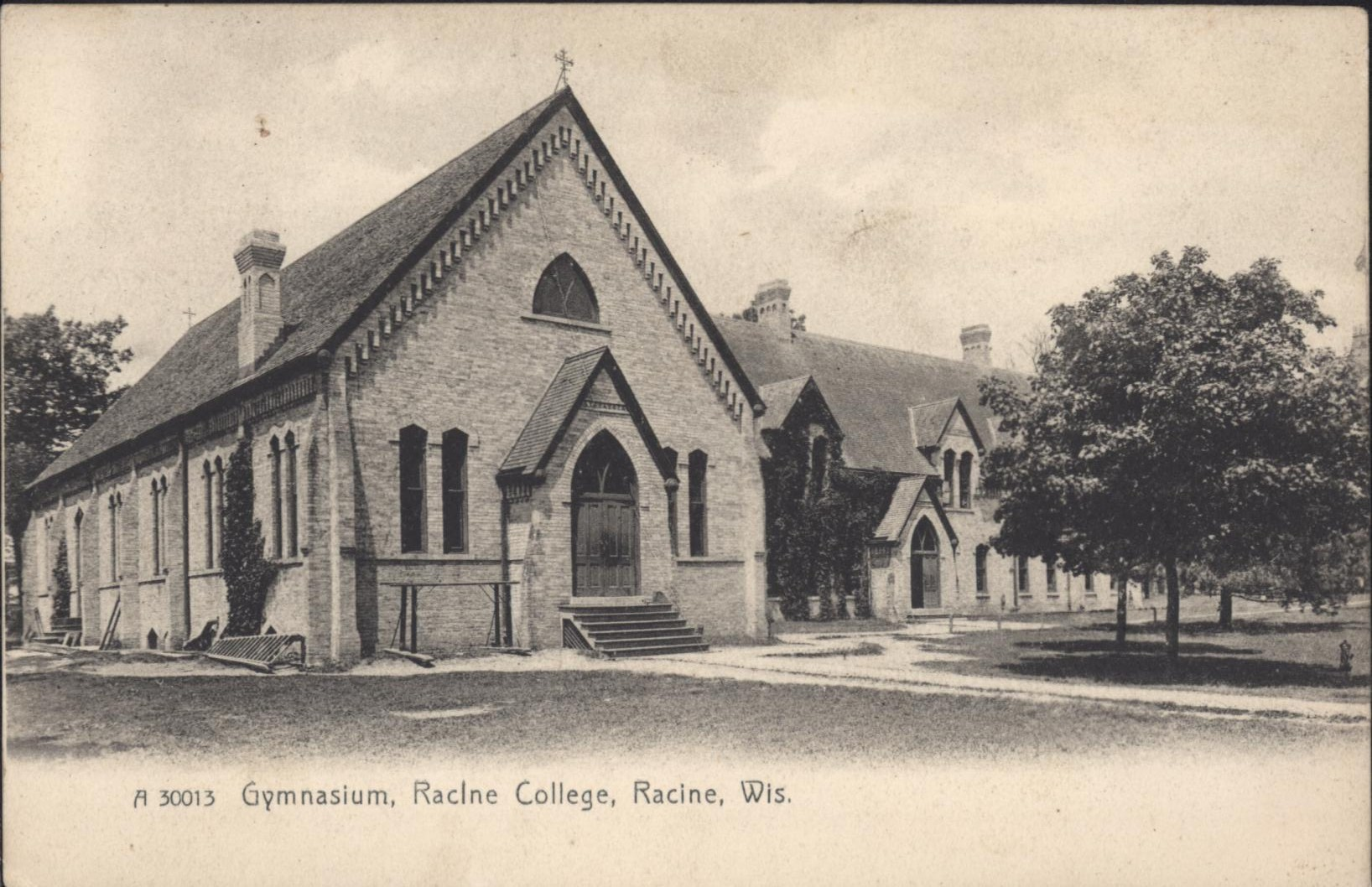 Gymnasium building of Racine College, Racine, Wisconsin from around 1905.